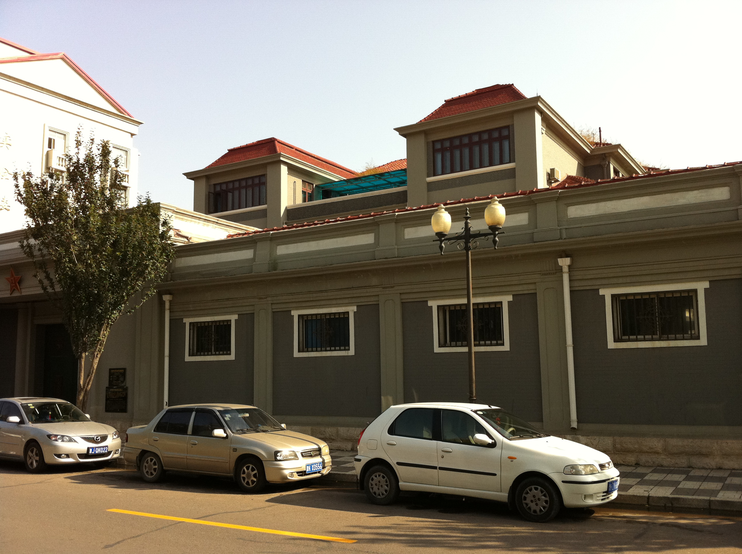 The Former Residence of Cai ChengXun (蔡成勋, 1873–1946) in Dali Dao No. 1, Heping District, Tianjin